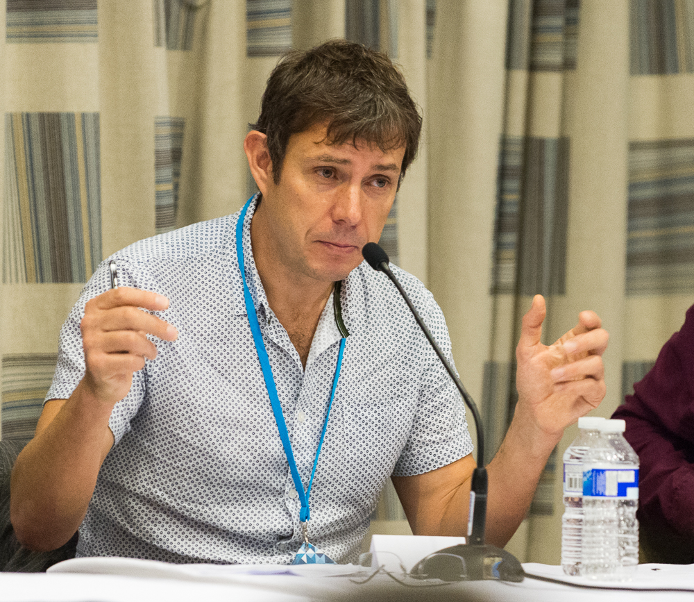 Jeff Forshaw on the "Science: The Big Questions" panel at QED Con 2017.